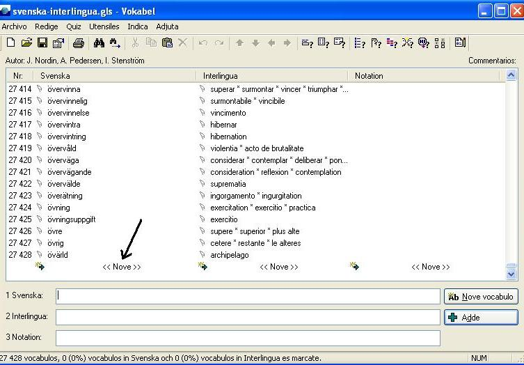 Screenshot of the program Vokabel. This program is free.